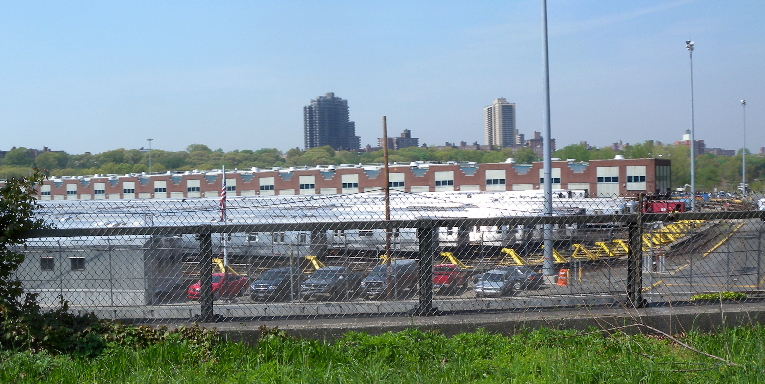 Looking west at Jamaica Yard on a sunny late morning.